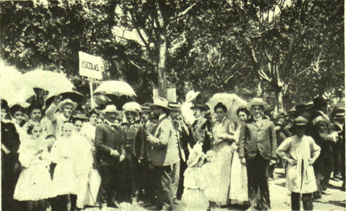 Imatge de la festa nacional, juny 1905